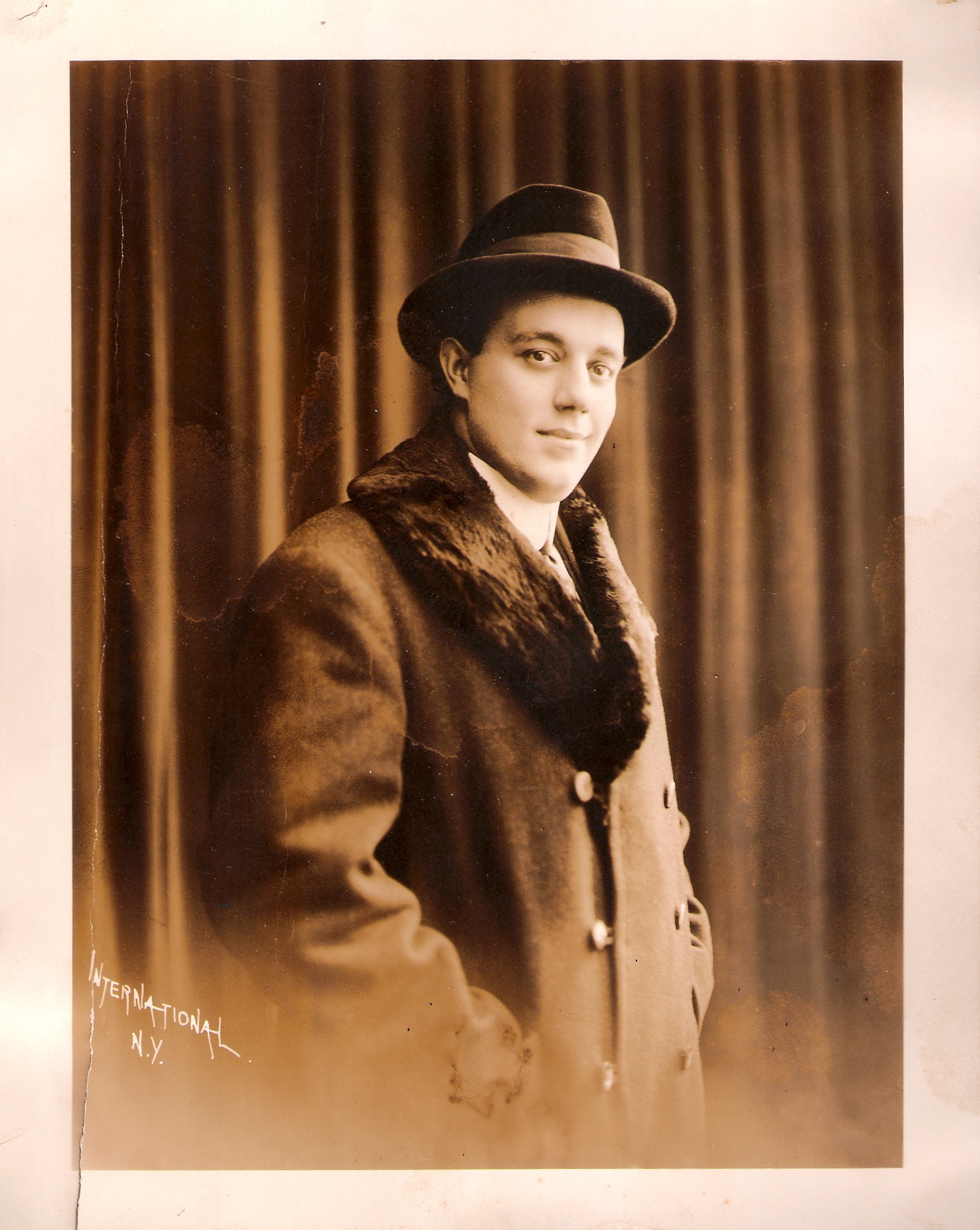 Roberto Viglione (New York)